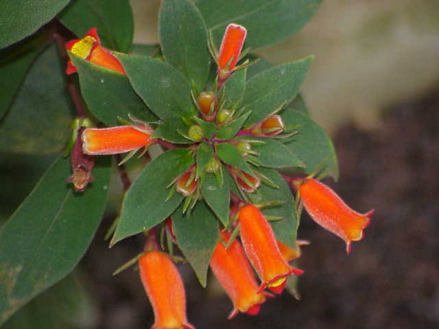 Species: 'Seemannia sylvatica (red-flowered form). Family: Gesneriaceae Image No. 1